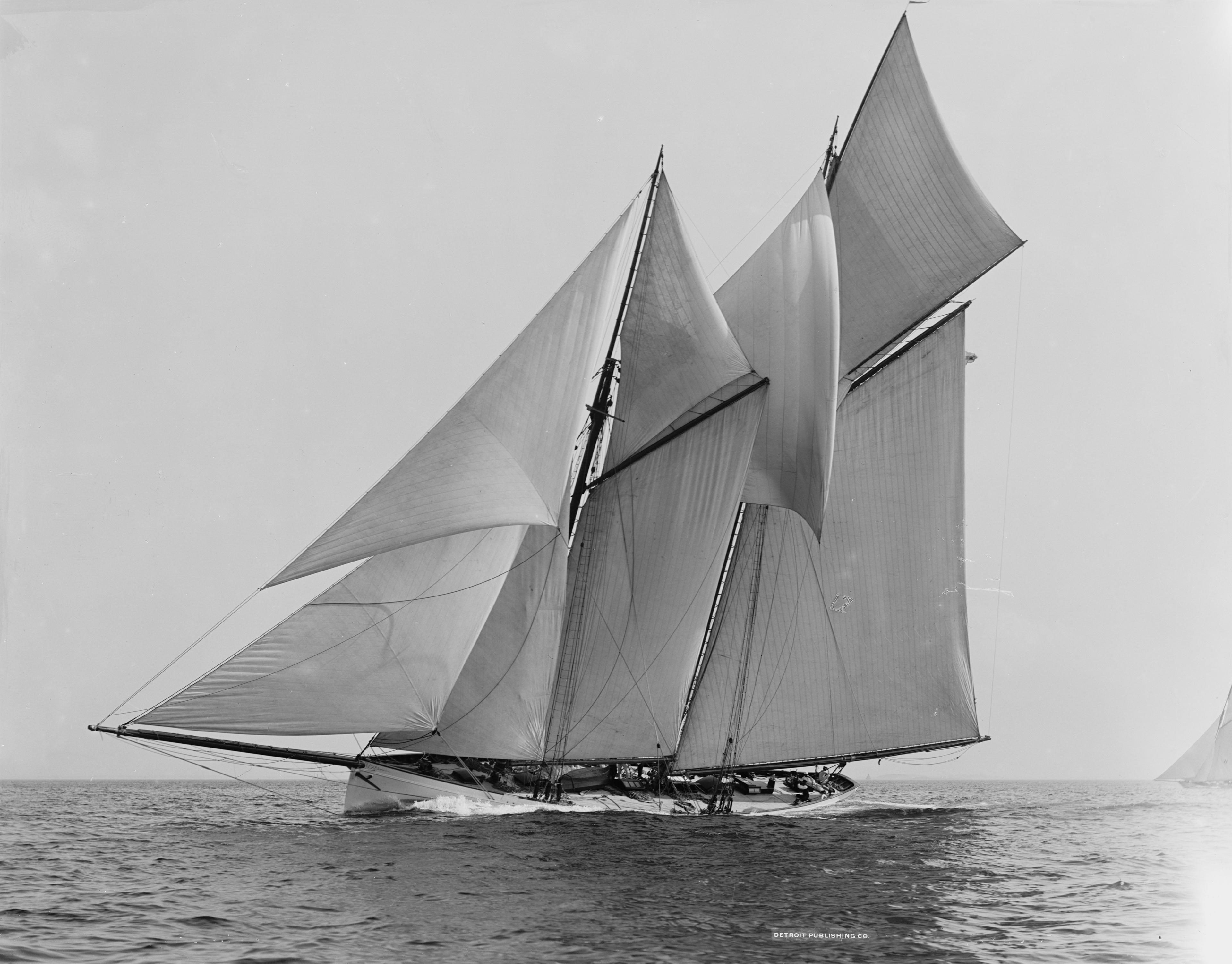 William Amory Gardner's schooner Mayflower (Edward Burgess design, 1886) racing on July 22nd, 1891 in the Eastern Yacht Club race, which she won. She had previously defended the America's Cup with a sloop rig in 1886. New York Times - Eastern Yacht Club Race